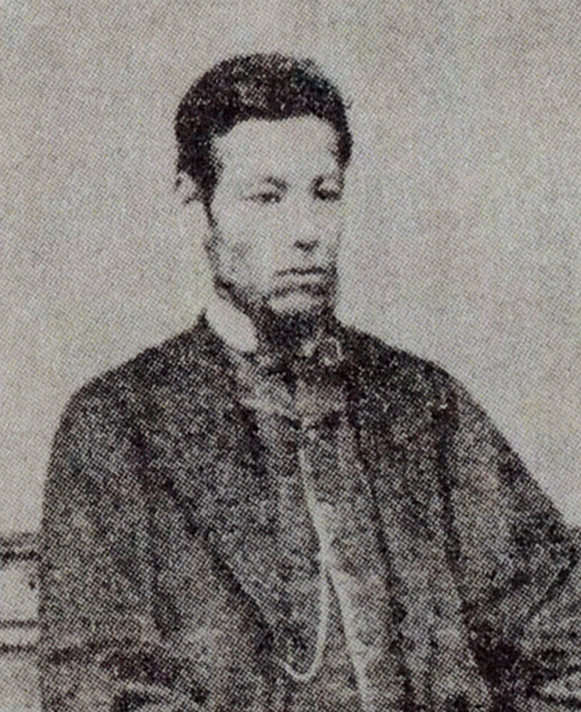 Portrait photograph of Tokonami Masayoshi (1842-1897), oil painter, public prosecutor, and judge from Japan